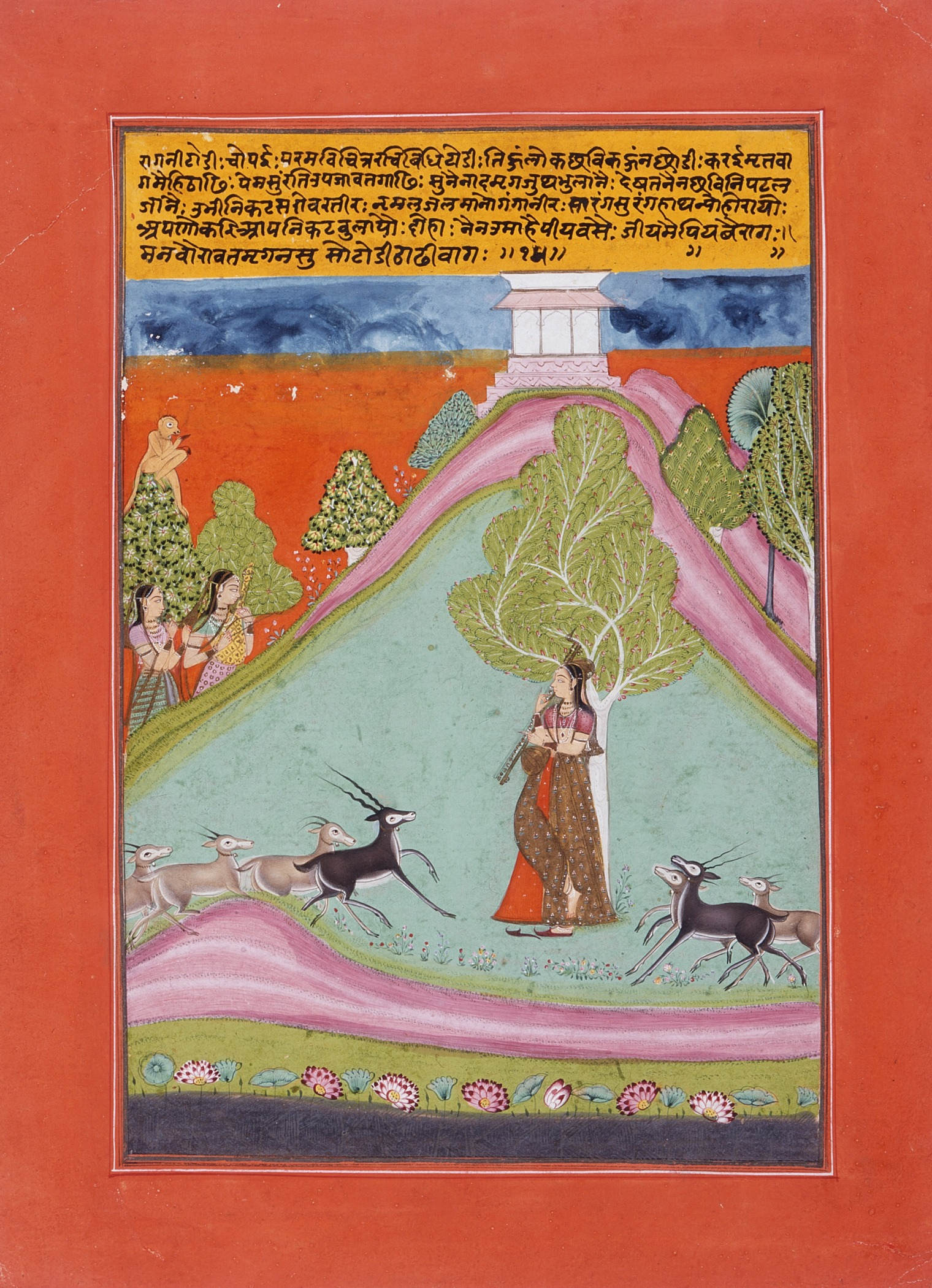 India, Rajasthan, Jaipur, circa 1750 Drawings; watercolors Opaque watercolor on paper From the Nasli and Alice Heeramaneck Collection, Museum Associates Purchase (M.71.1.42) South and Southeast Asian Art